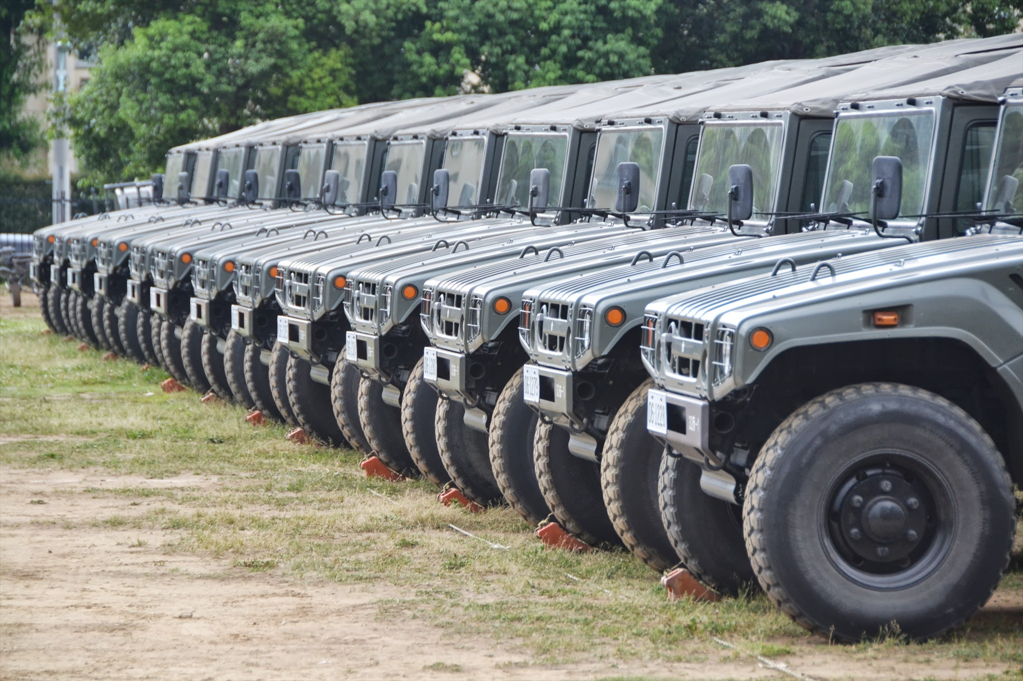 Title ３２ｉ提供「右へならえ」(25.6.11受信).JPG Album 装備 高機動車（第３２普通科連隊）